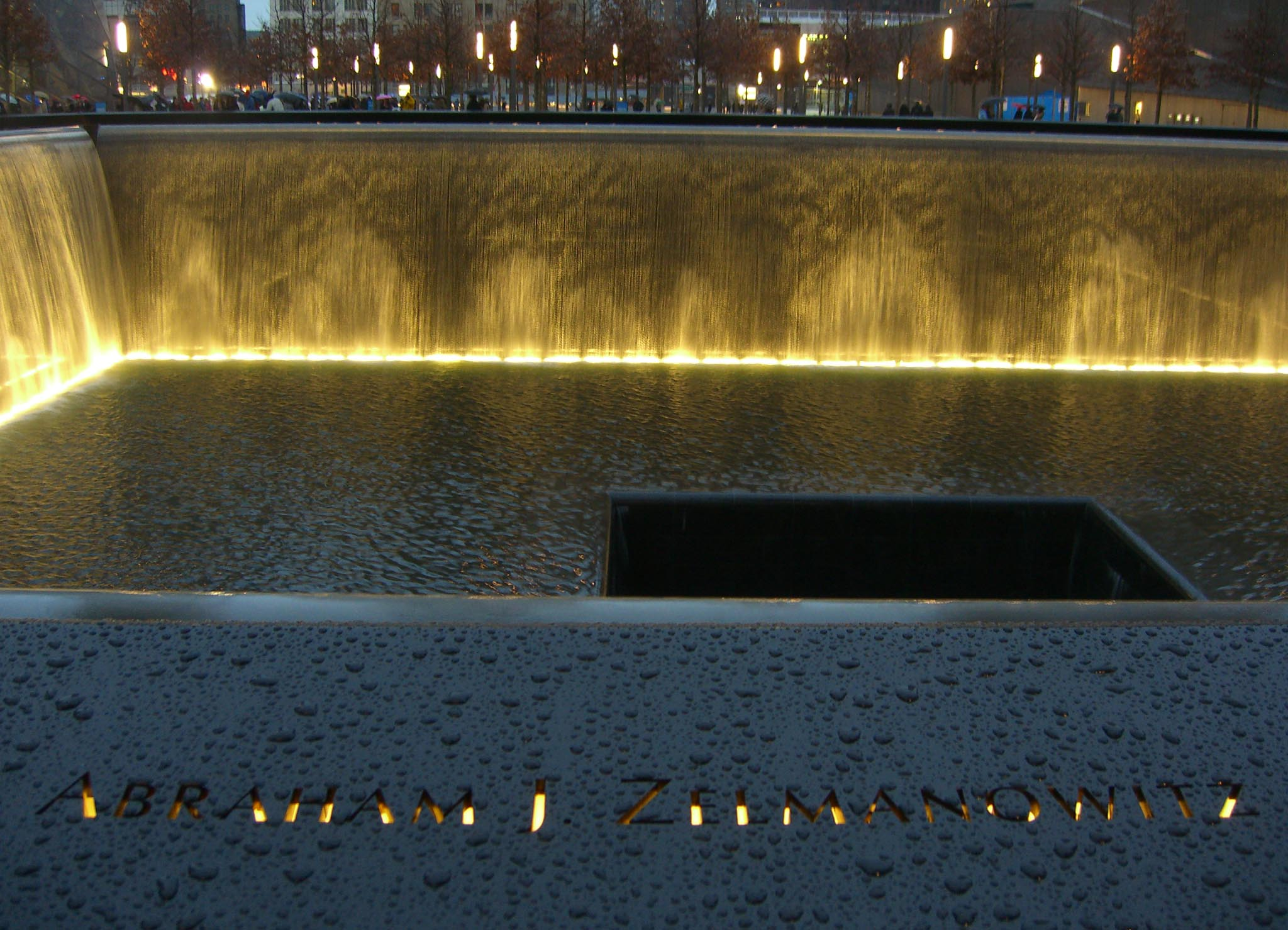 The name of Abraham Zelmanowitz is seen with other 9/11 victims inscribed on bronze panel N-65 of the North Pool of the National September 11 Memorial in Manhattan, as seen on December 6, 2011. This photo was created by Luigi Novi. If you have any questions, you can contact me by sending me an email or User talk:Nightscream